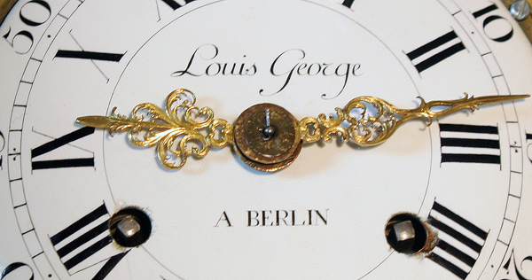 Watch dial of a vintage Louis George watch at Castle Sanssoucci near Potsdam.